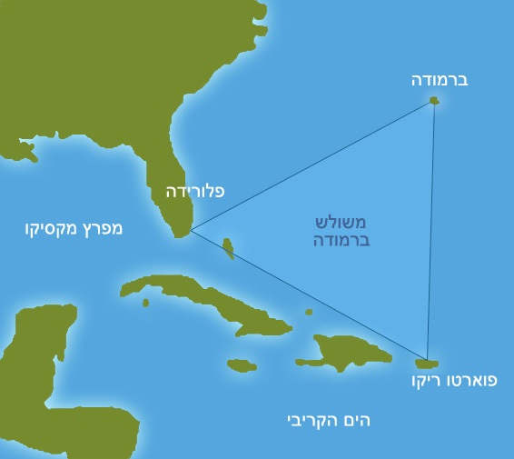 Map of the Bermuda Triangle